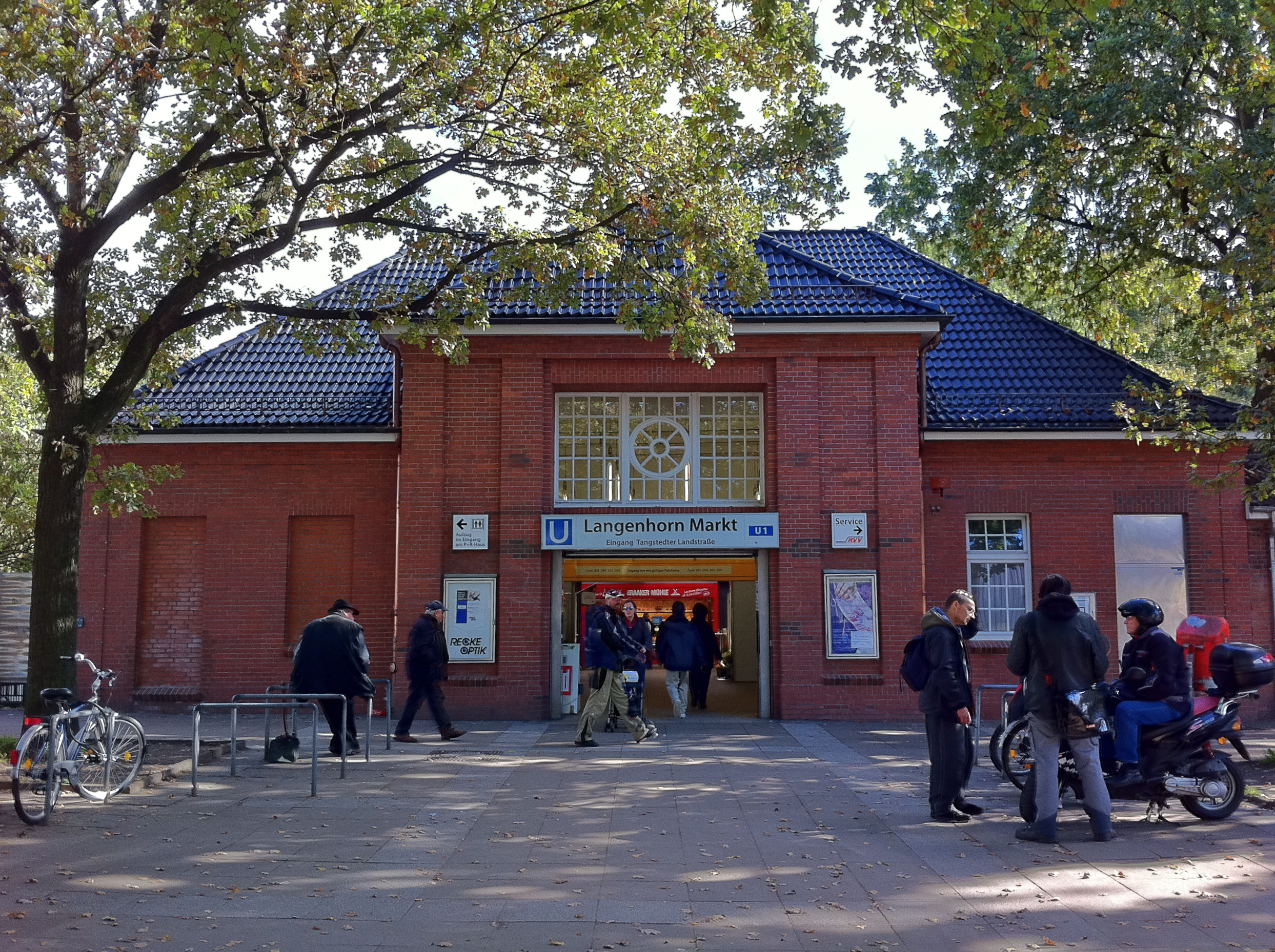 Hamburg (Langenhorn), Germany: Underground Station Langenhorn-Markt